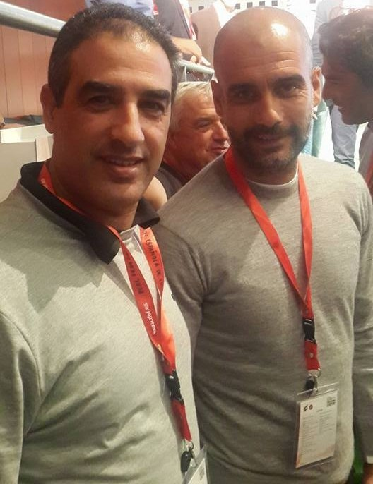 Hicham Jadrane with Spanish Coach Pep Guardiola at 2nd UEFA License Formation. ; Spanish Football Association, Las Rozas